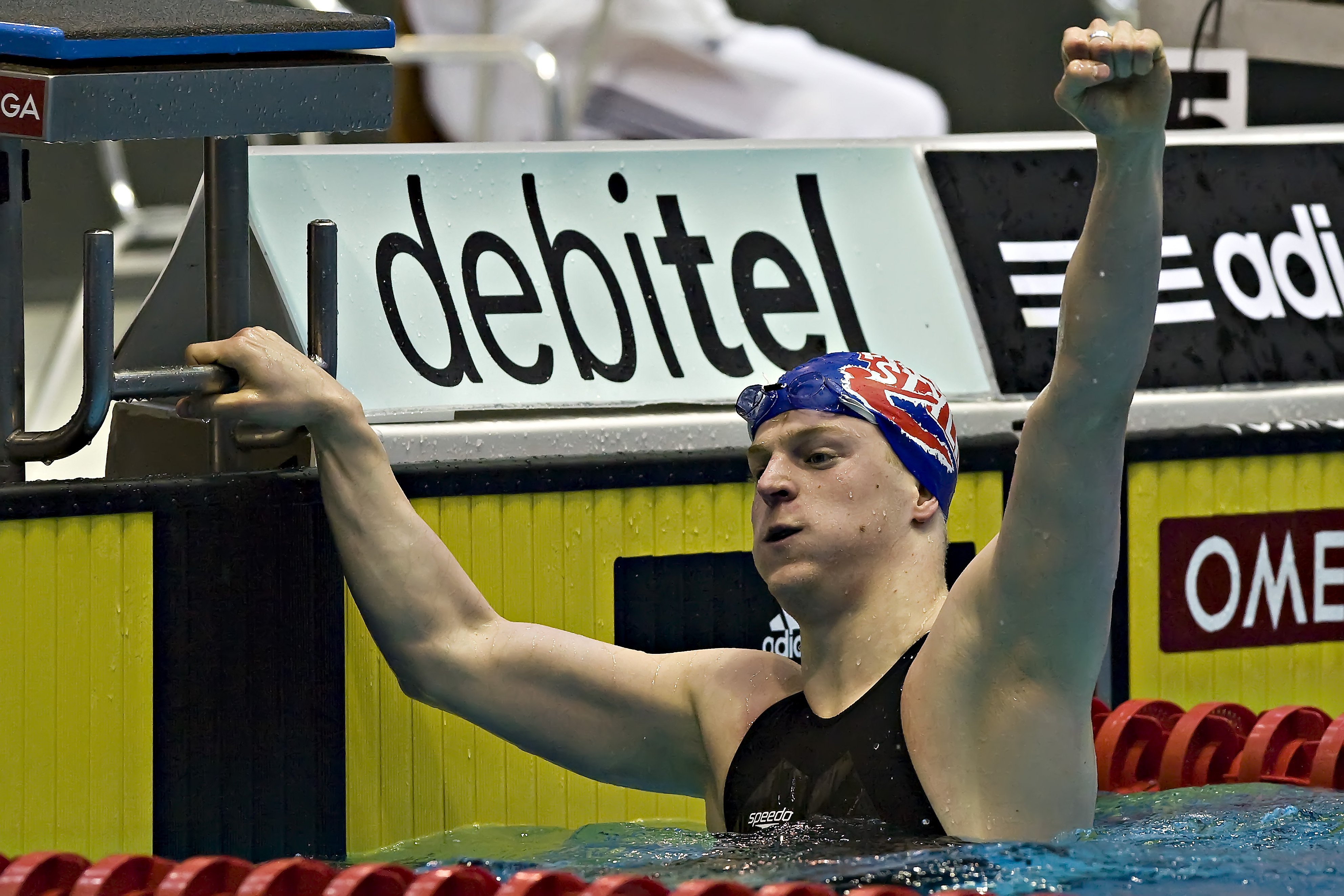 Steffen Deibler in winner-position